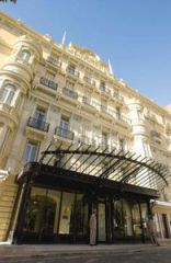 façade extérieure de l'hôtel Hermitage